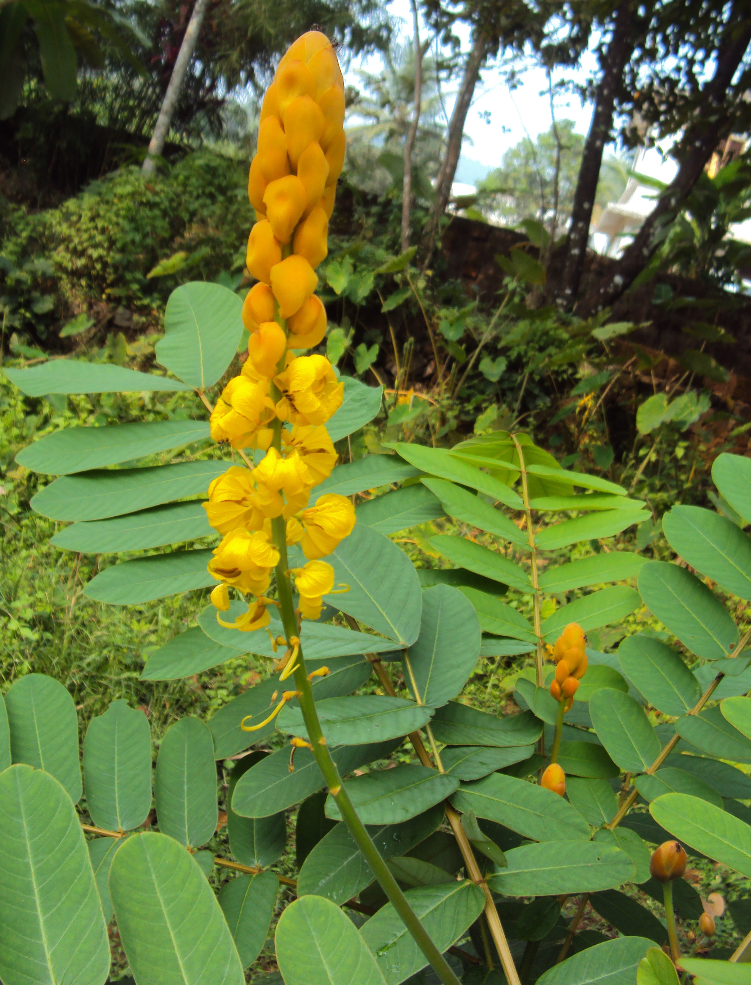 Senna Alata